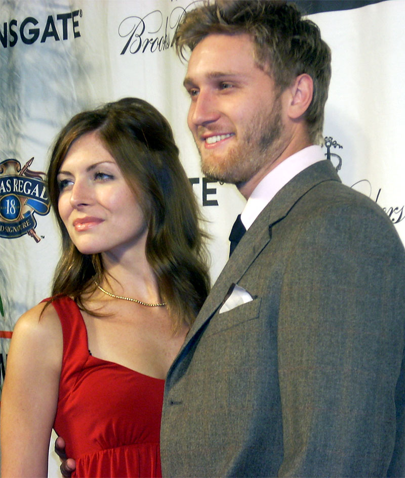 Actor Aaron Staton and wife Connie Fletcher at Chivas Regal Presents a Night on the Town with "Mad Men" - El Rey Theater, Los Angeles.